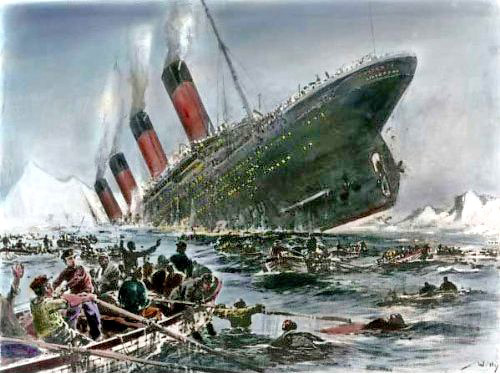 Engraving by Willy Stöwer: Der Untergang der Titanic (colour added later)